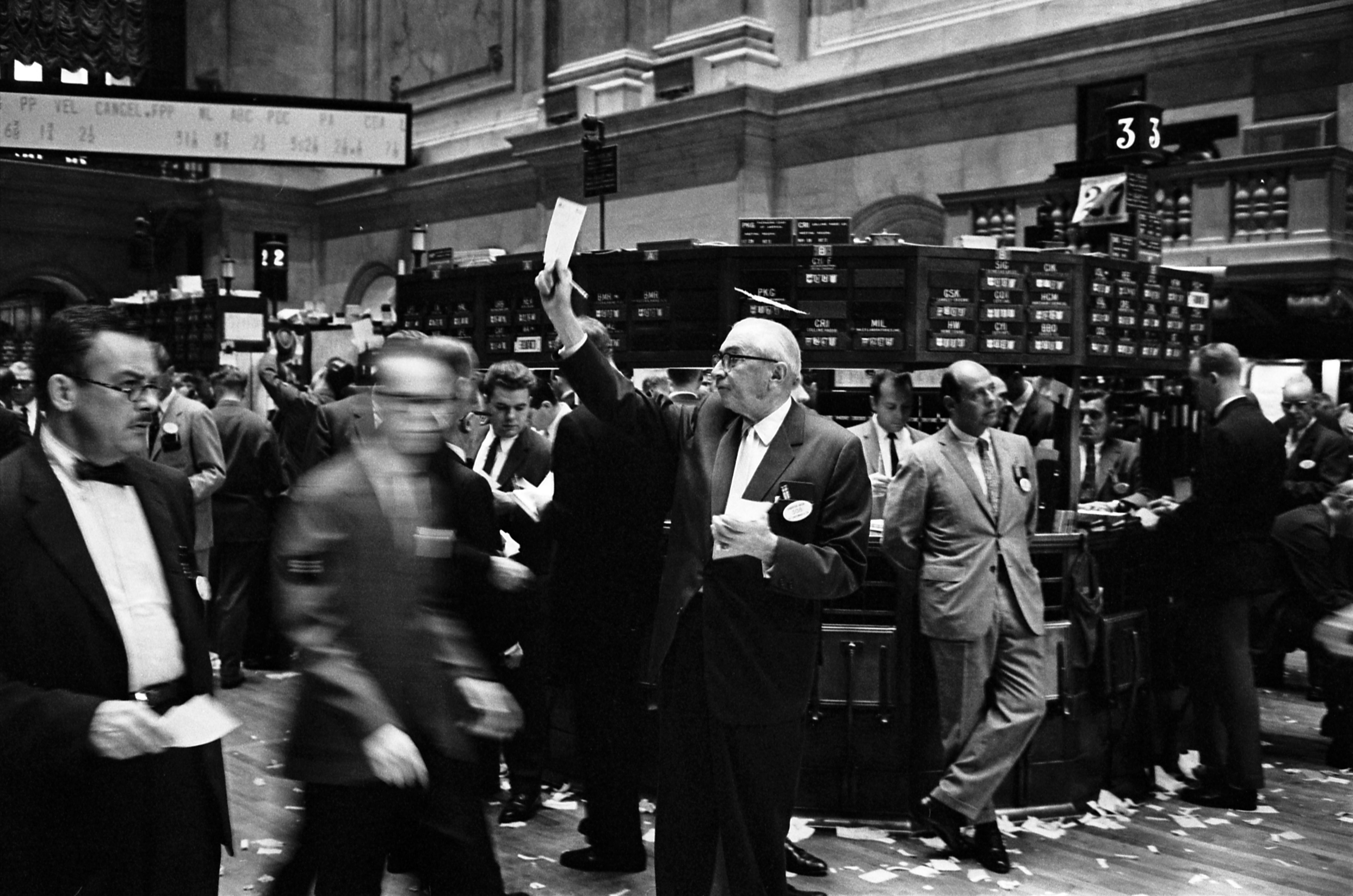 Photograph shows stock brokers working at the New York Stock Exchange